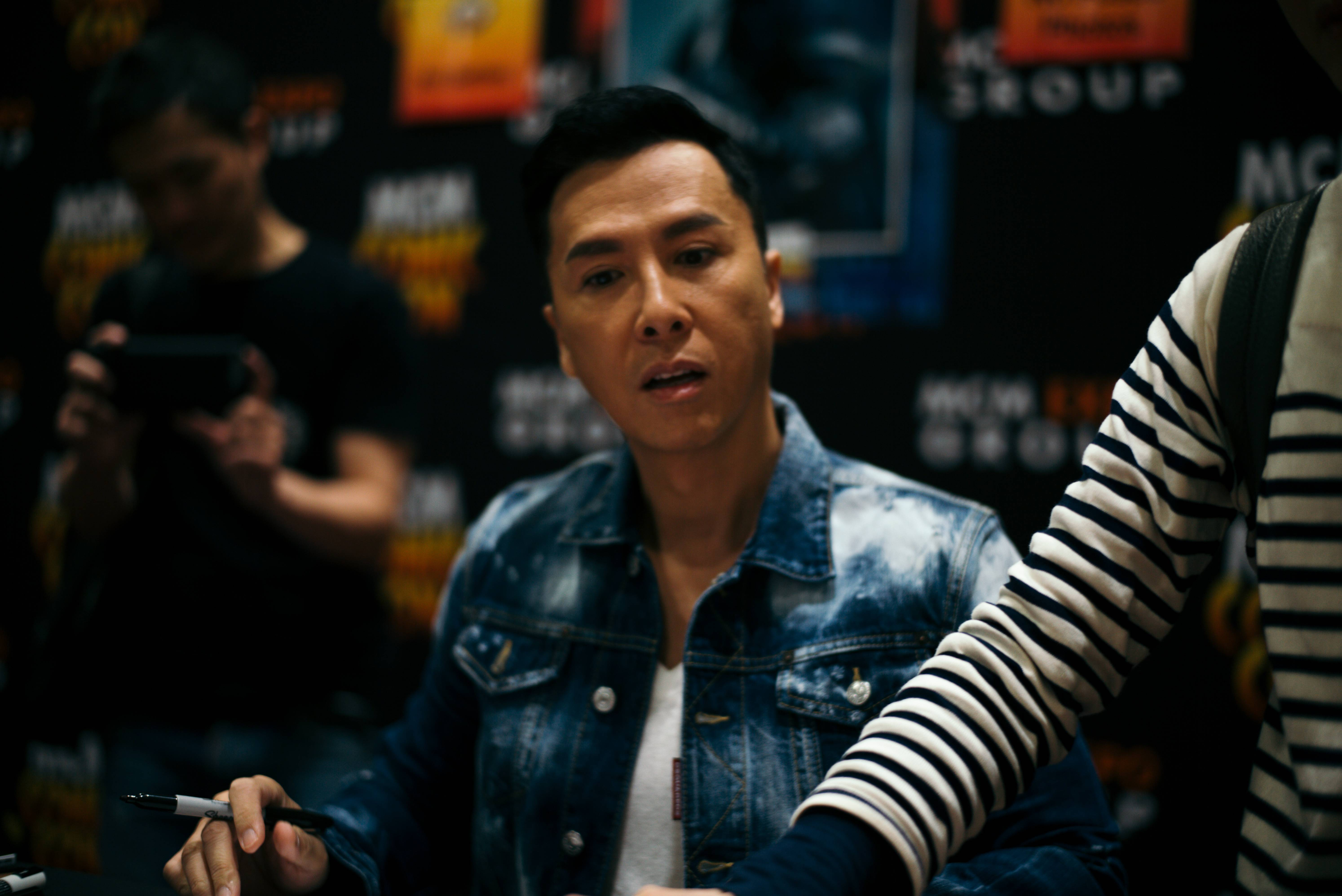 Donnie Yen, signing at MCM London May 2017